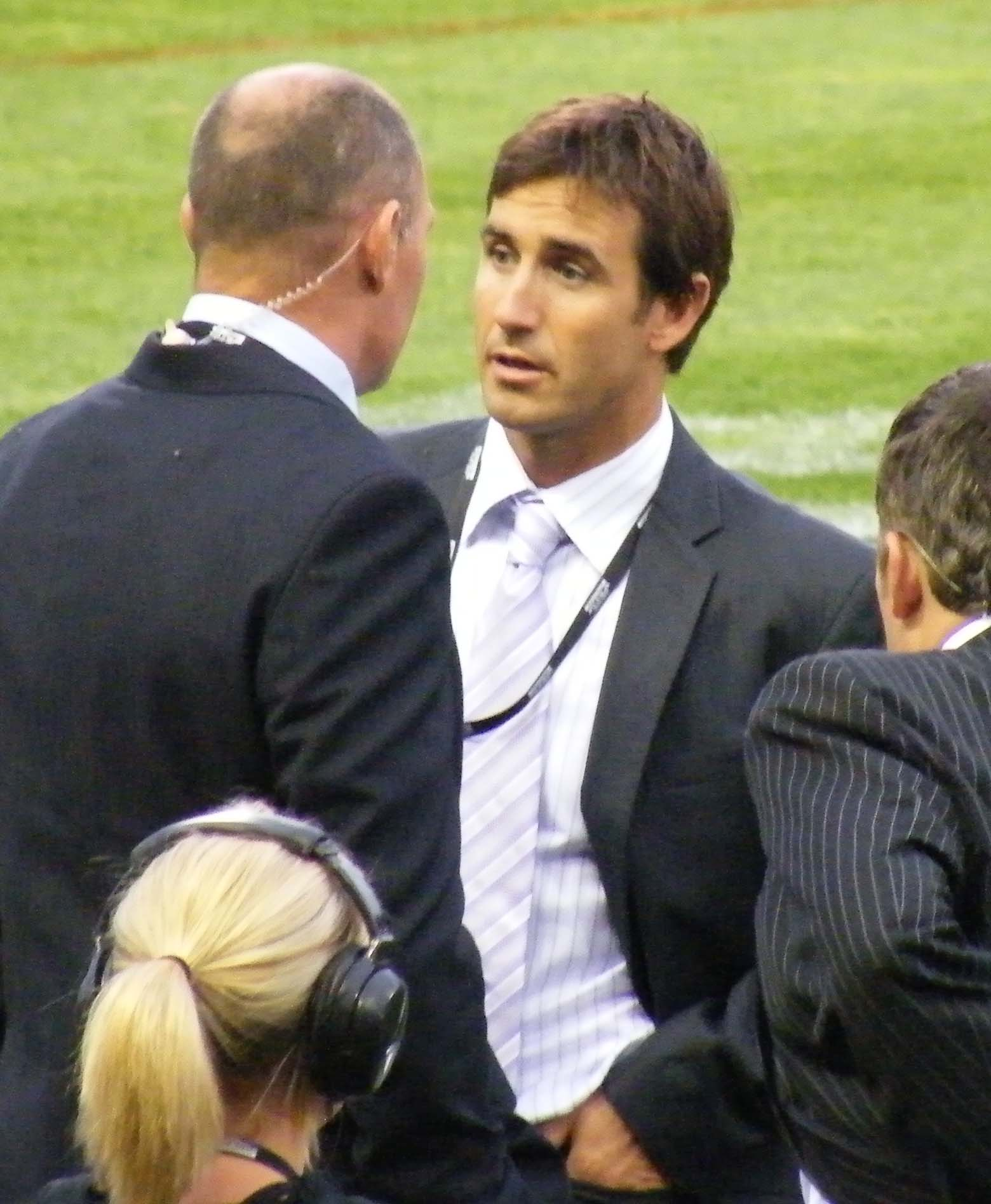 RLWC 2008 - England v New Zealand at Newcastle. Former Australian half back and now commentator Andrew Johns.